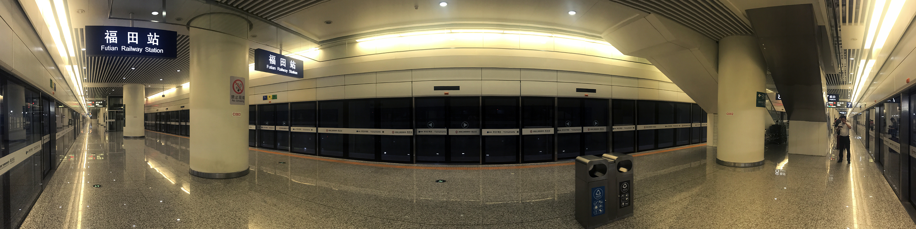 Panorama of Platform 7-8 of Futian Railway Station